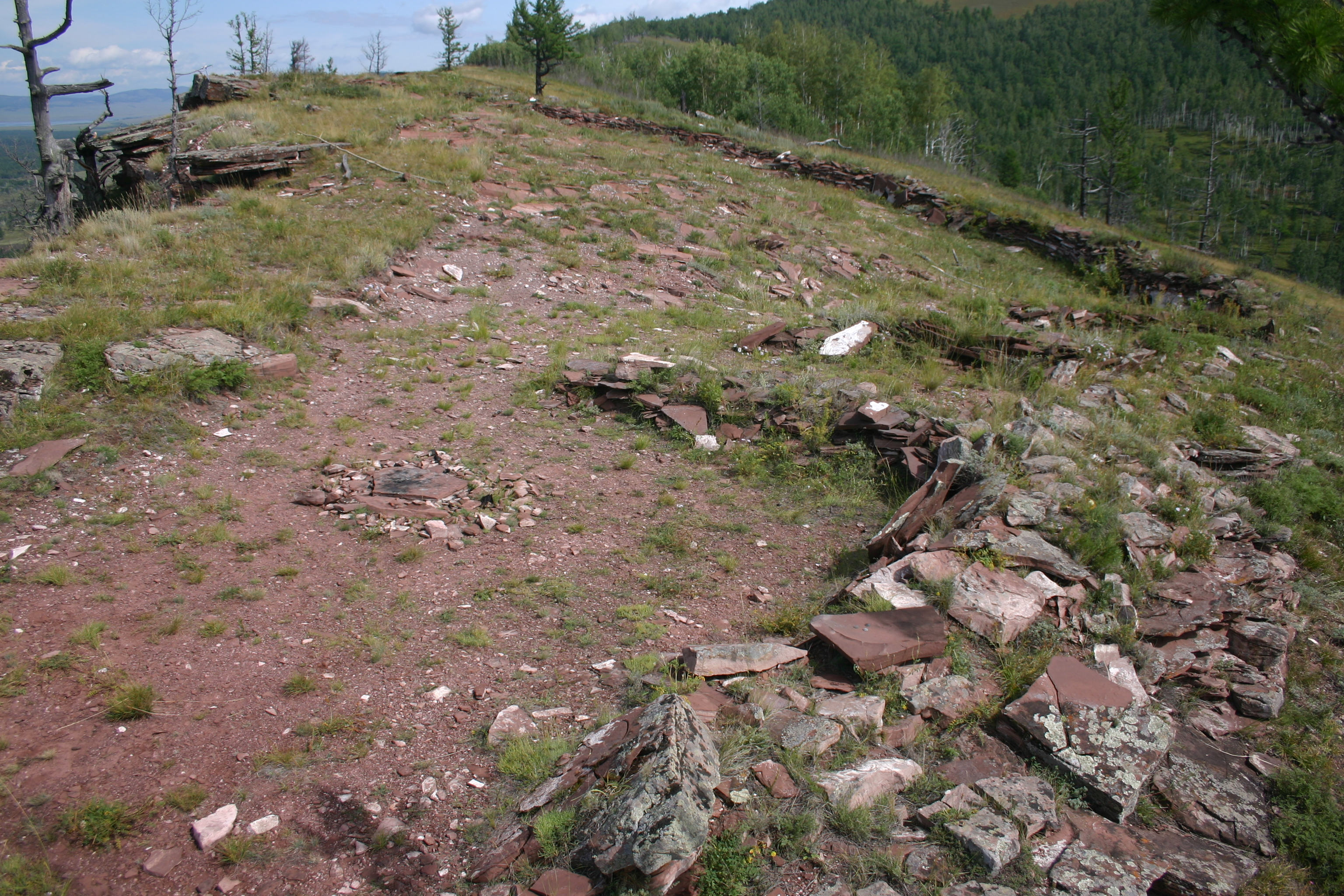 Citadel of fortress Chebaki